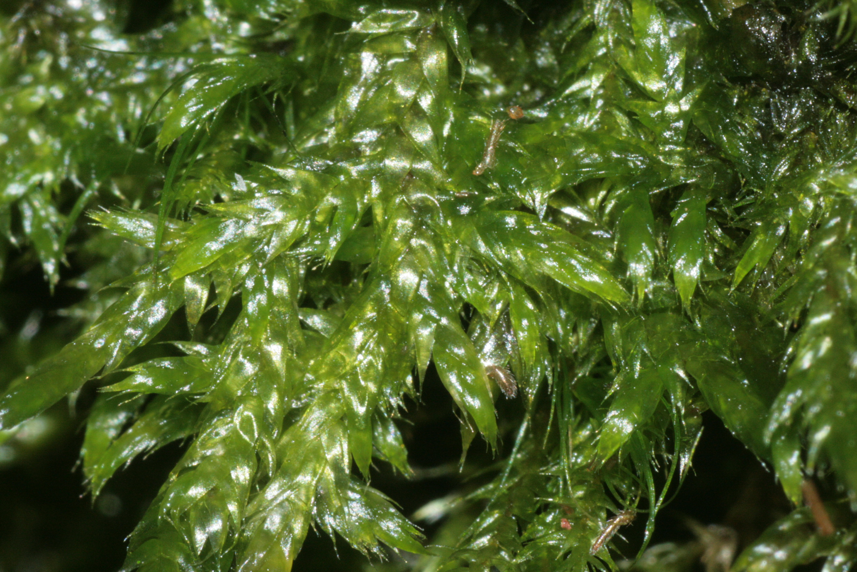 Brotherella lorentziana